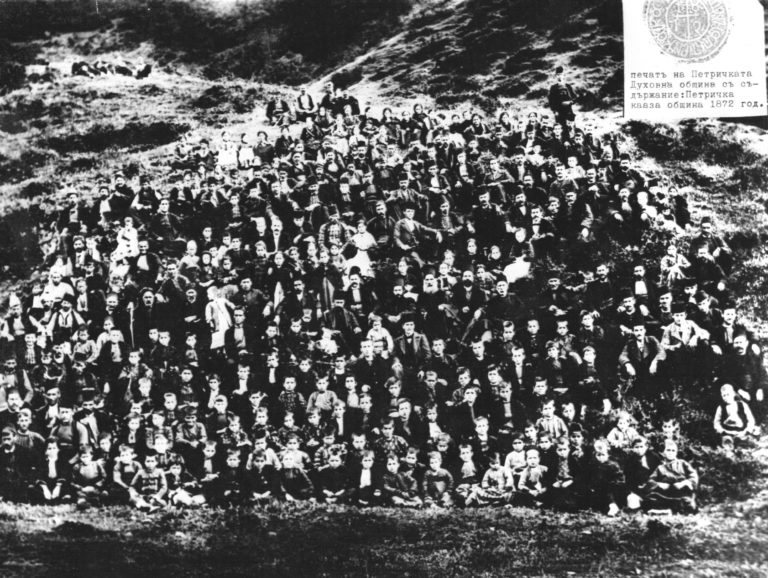 Saints Cyril and Methodius Celebration in Petrich - 11 May 1900